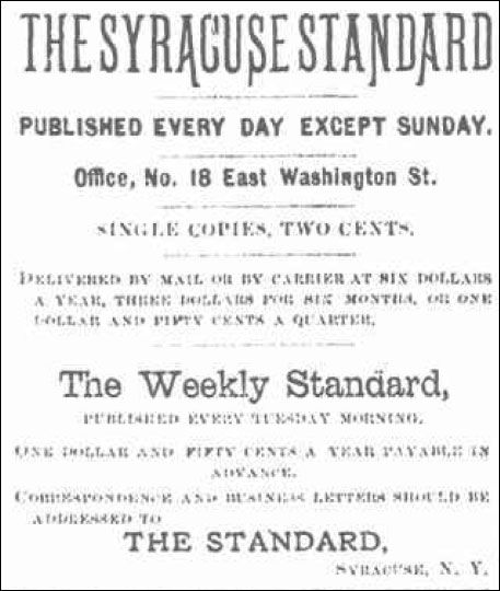 Syracuse Standard advertising